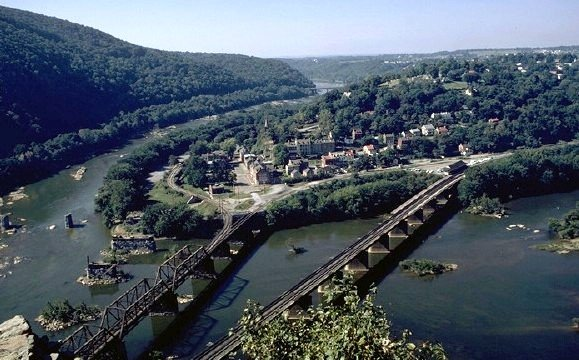 Harpers Ferry National Historic Park, West Virginia. Photograph taken from Maryland Heights, Maryland, USA. The Shenandoah River (left side of the image) flows into the Potomac River. On the left is a steel Pratt truss and plate girder bridge built in 1894. On the right is a deck plate girder bridge, built 1931. Both bridges were built by the Baltimore and Ohio Railroad.